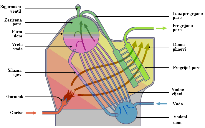 Modified Wiki Picture with Croatian letters, modified picture Water tube boiler schematic.png